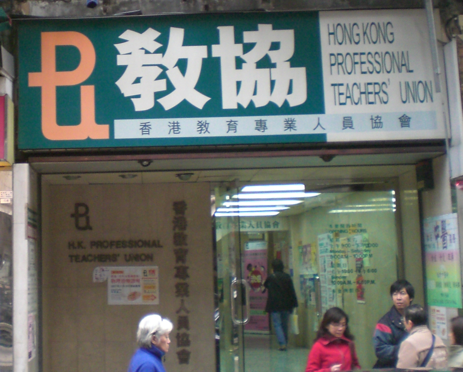 堅拿道西, 香港教育專業人員協會, Hong Kong Professional Teachers' Union, Canal Road West, Causeway Bay, Hong Kong.